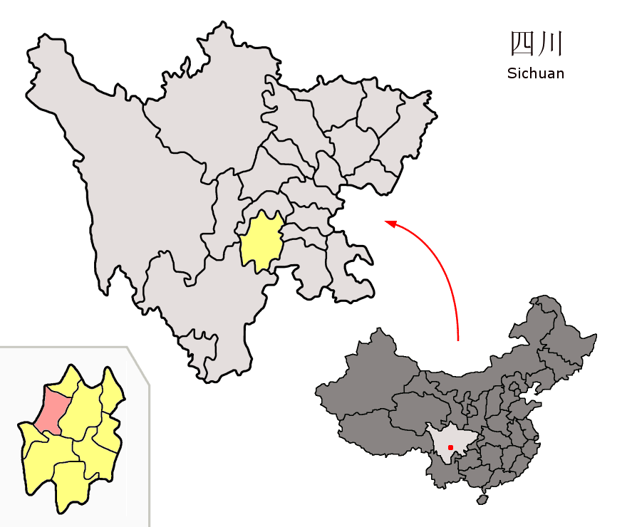 Location of Emeishan City (pink) and Leshan Prefecture (yellow) within Sichuan province of China Map drawn in september 2007 using various sources, mainly : Sichuan province administrative regions GIS data: 1:1M, County level, 1990 Sichuan Counties map from Map of Yunnan & Sichuan Area from